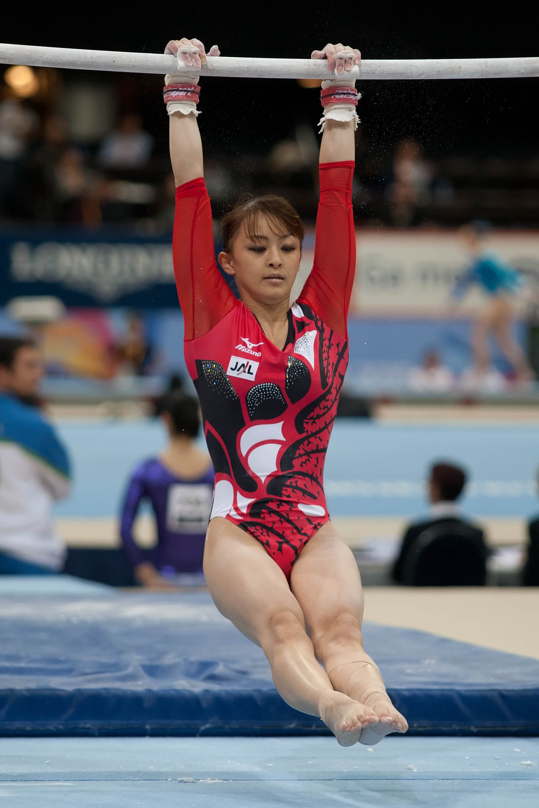 Rie Tanaka at 42nd Artistic Gymnastics World Championship 2010